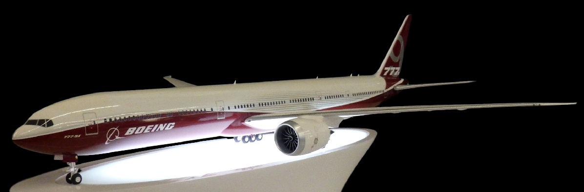 Boeing 777x model, background clipped